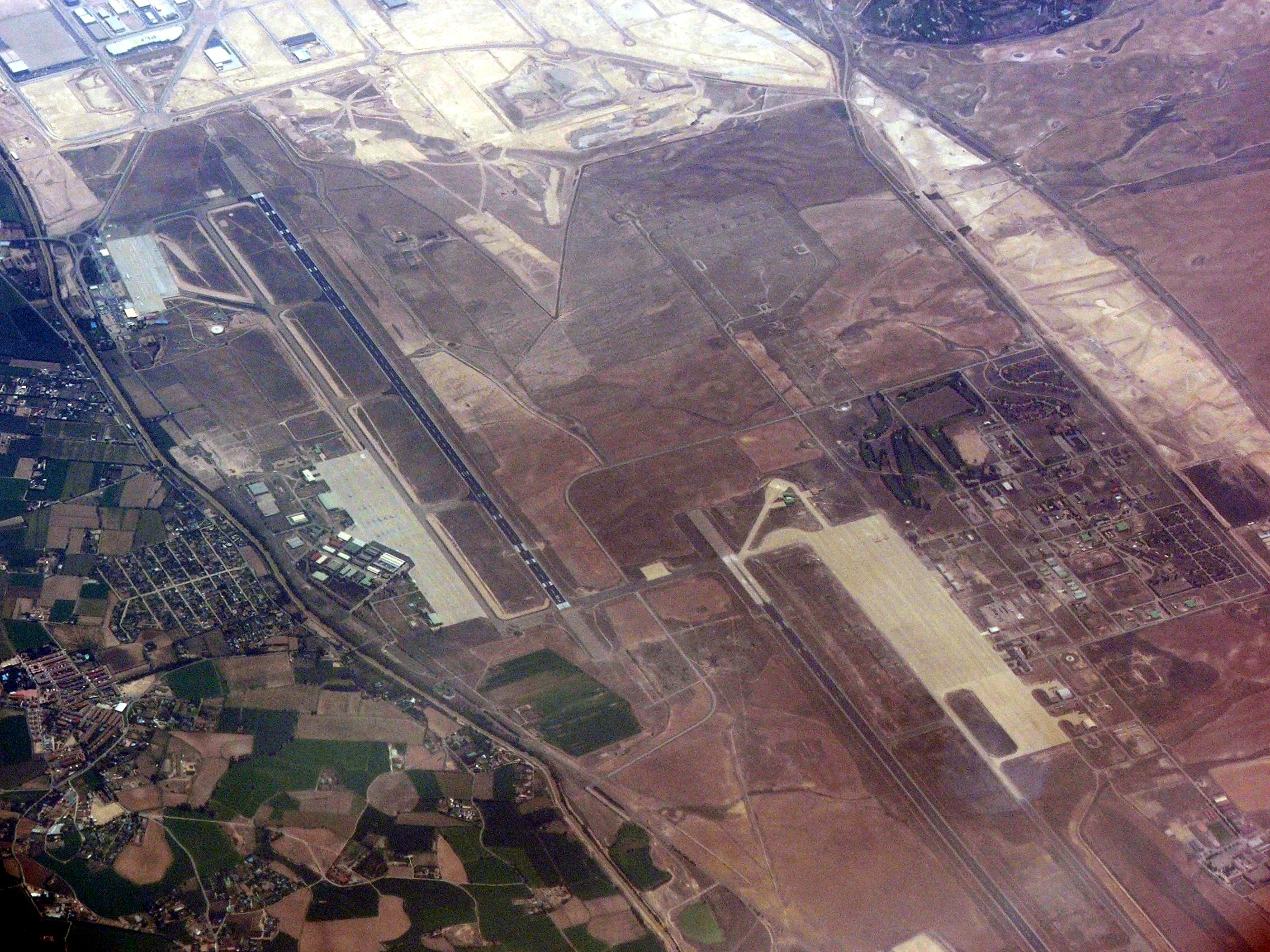 Zaragoza Airport in July 2006 - flight from Prague to Madrid.